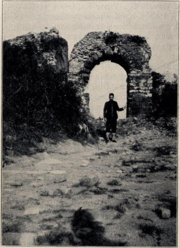 Karanlık Kapı